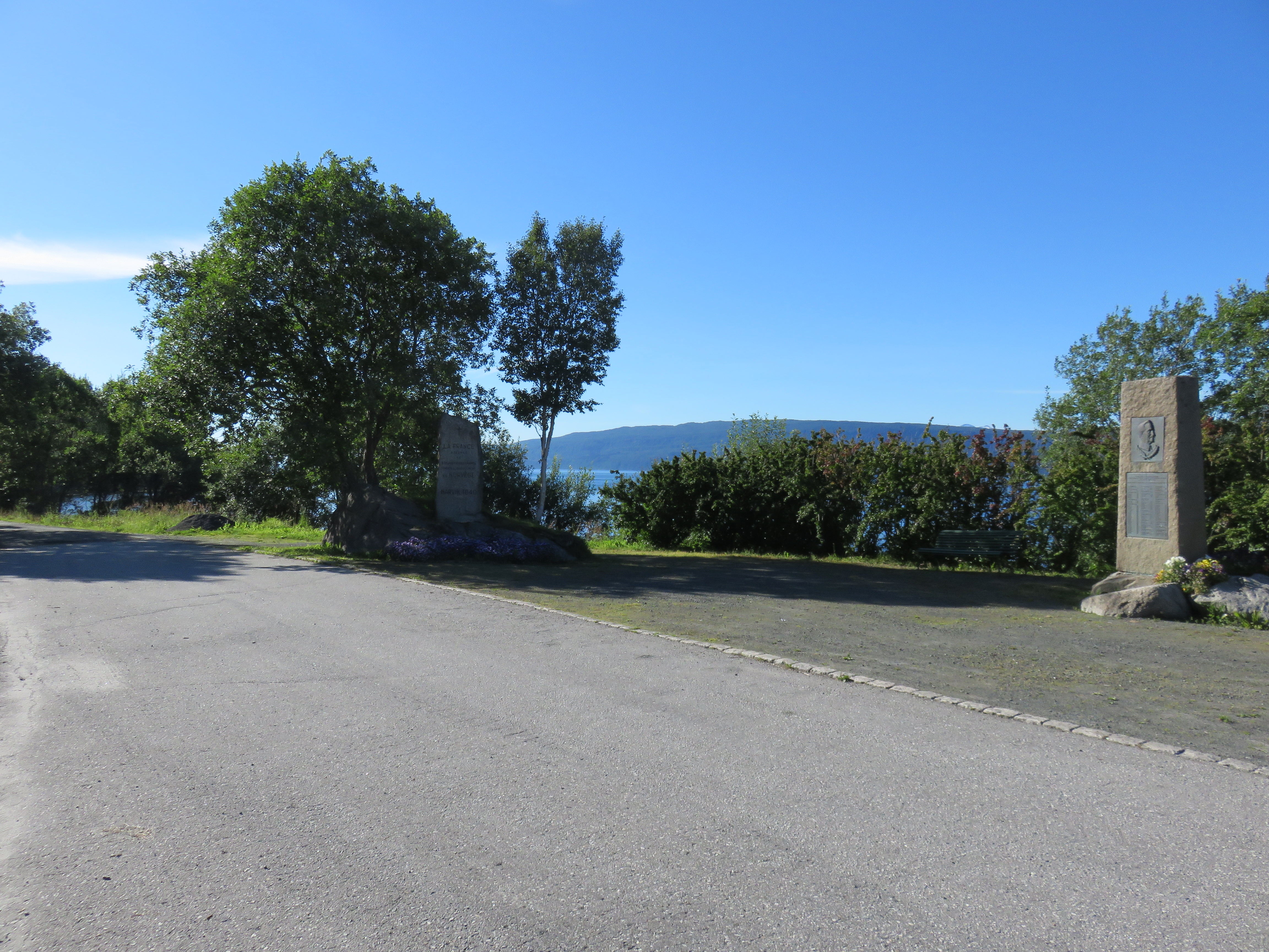 War Memorial Site north of Narvik.